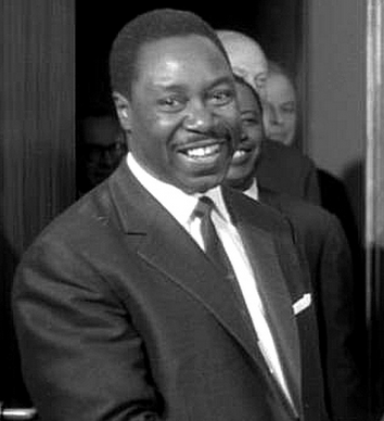 Louis Lansana Beavogui (28 December 1923 – 19 August 1984) was a Guinean politician. He was Prime Minister from 1972 to 1984 and was briefly interim President in 1984.